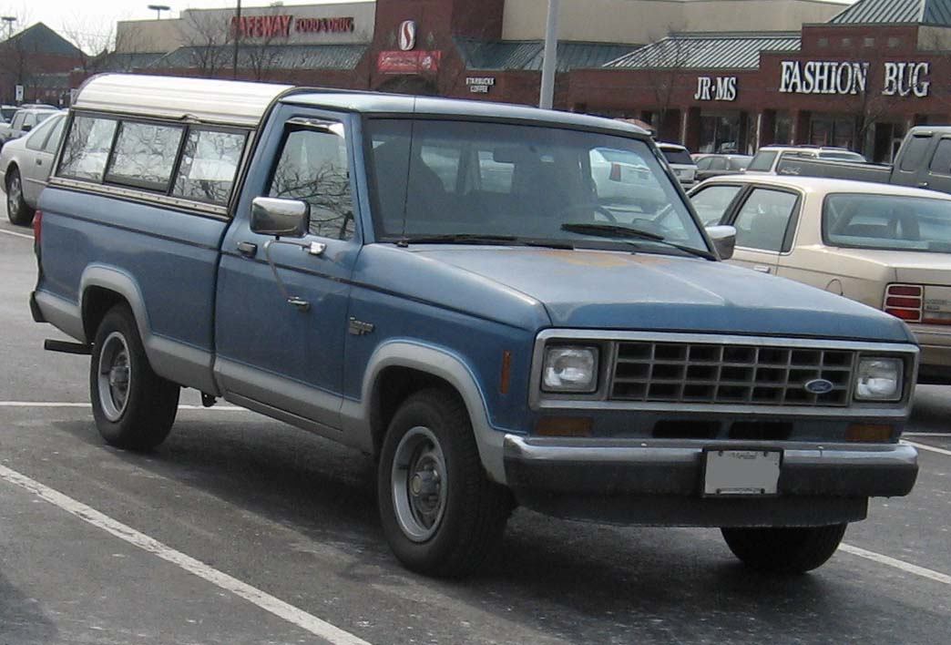 1983-1988 Ford Ranger photographed in USA.